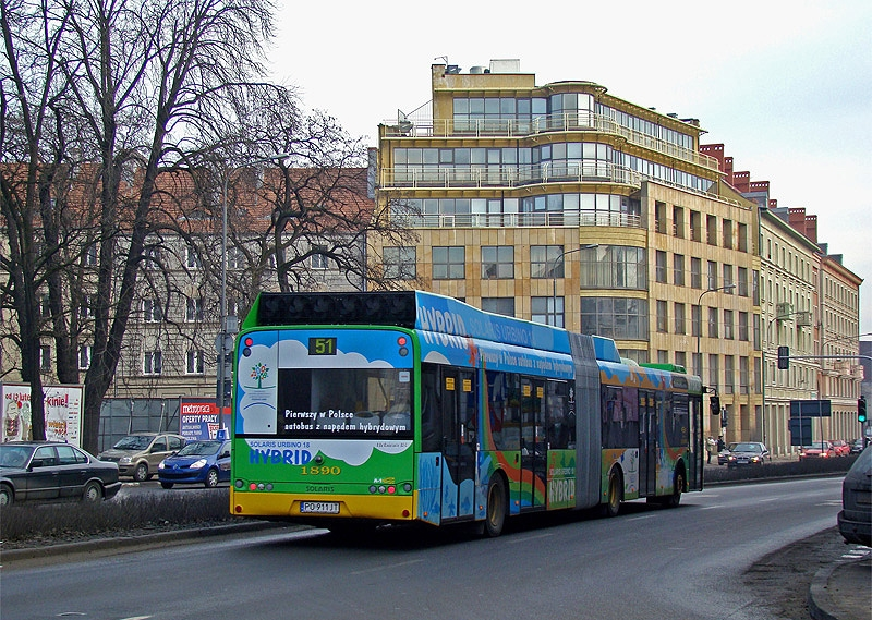 Solaris Urbino 18 Hybrid II (Allison) bus (#1890, reg. PO 911JT) in Poznań, Poland. Built 2008, MPK Poznań operator.